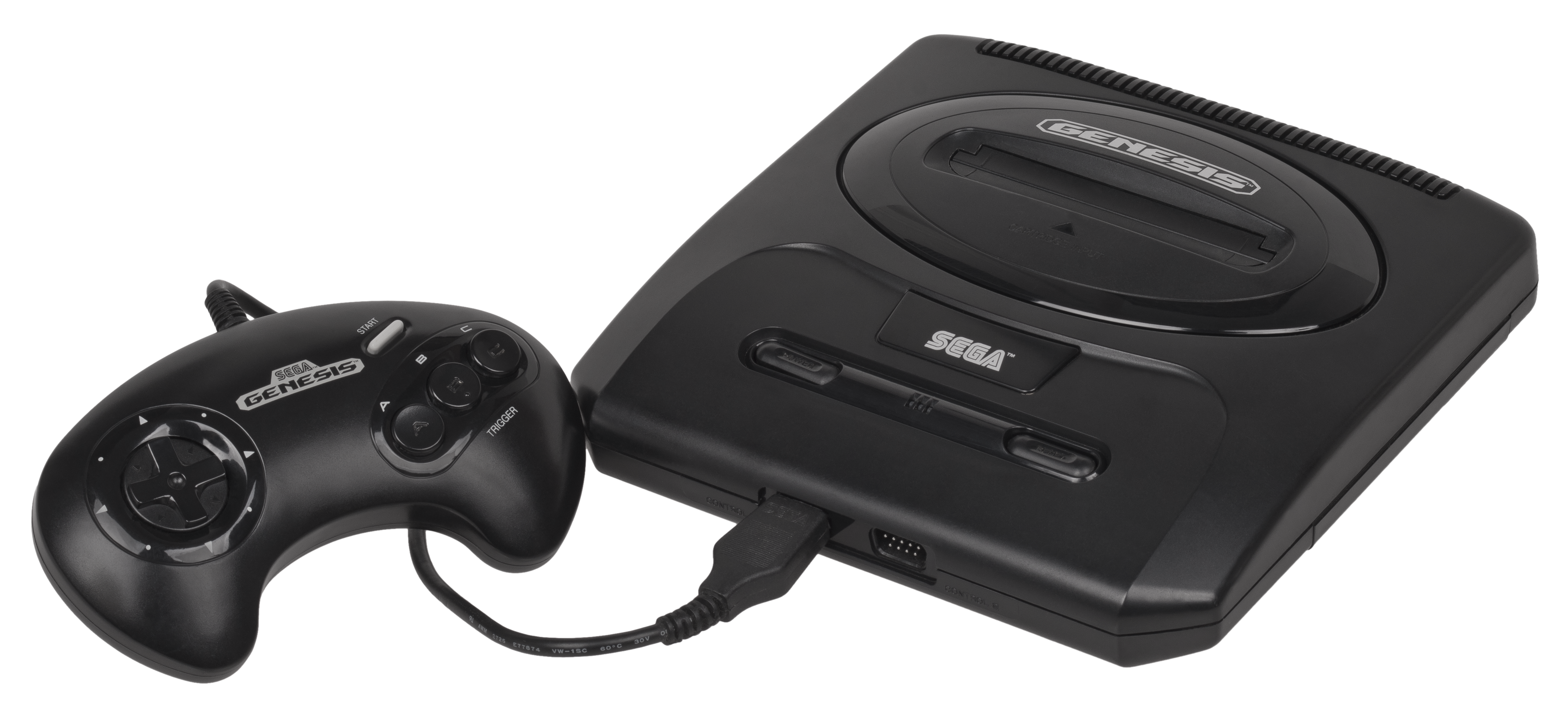 A Sega Genesis video game console shown with controller. This is the second model of the system.